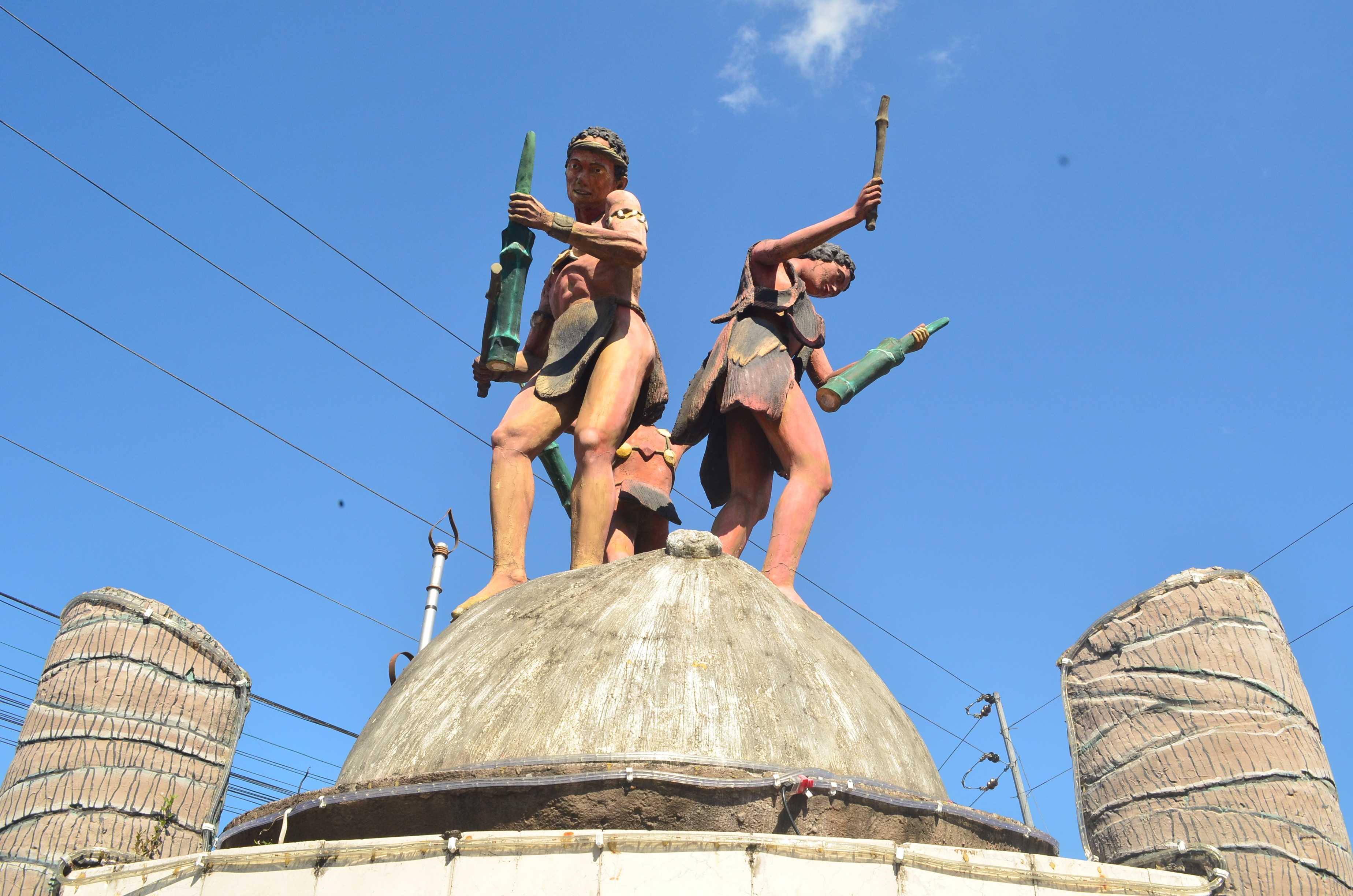 Boa Boahan Rotonda landmark tribute to nabueños by Atty fernando simbulan